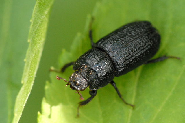 Sinodendron cylindricum from Commanster, Belgian High Ardennes .